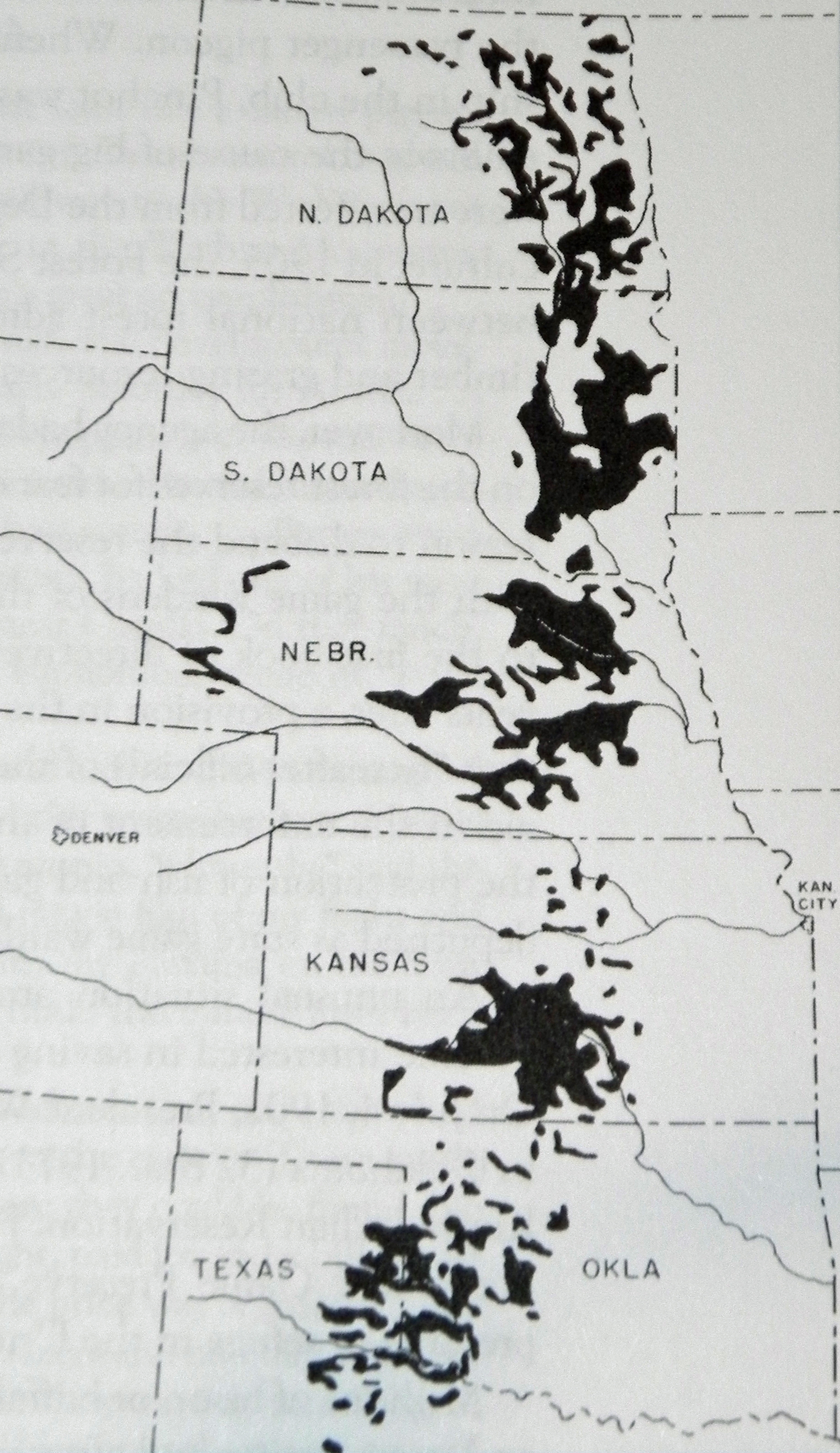 The major planting areas of the Shelterbelt Project from 1933-1942